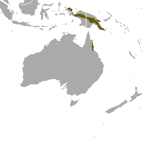 Long-tailed Pygmy Possum (Cercartetus caudatus) range